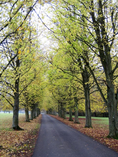 The Drive - Parnham The drive passes through the deerpark to the house.